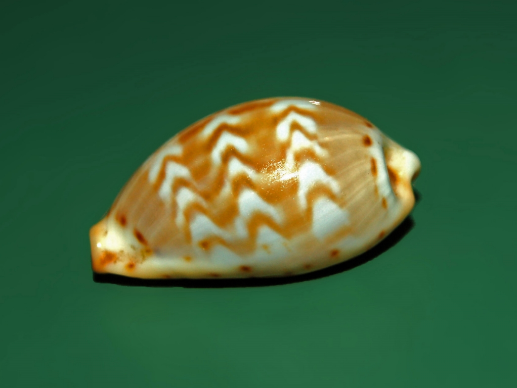 Palmadusta ziczac